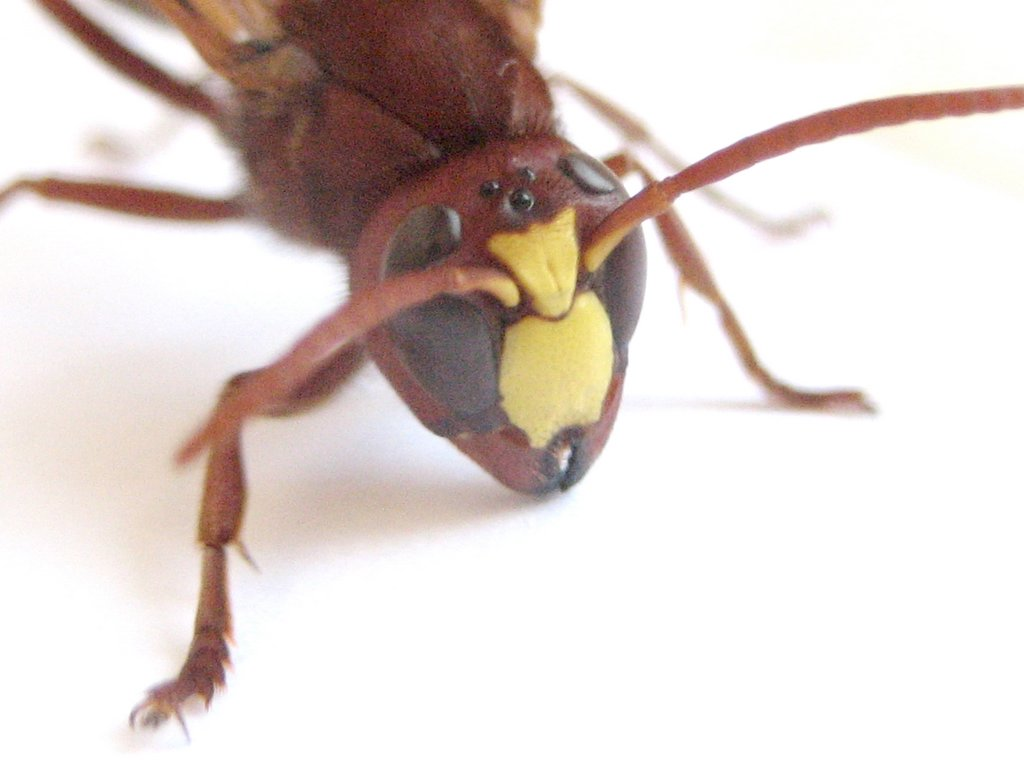 Head of an Oriental Wasp. צולם ע"י אבינועם (קוקו) מיכאלי בגן לאומי מצדה 16.09.06 Taken by Avinoam (koko) Michaely, MASADA - Nationat Park, Israel 16.09.06